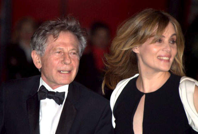 Roman Polanski and Emmanuelle Seigner at the César awards ceremony